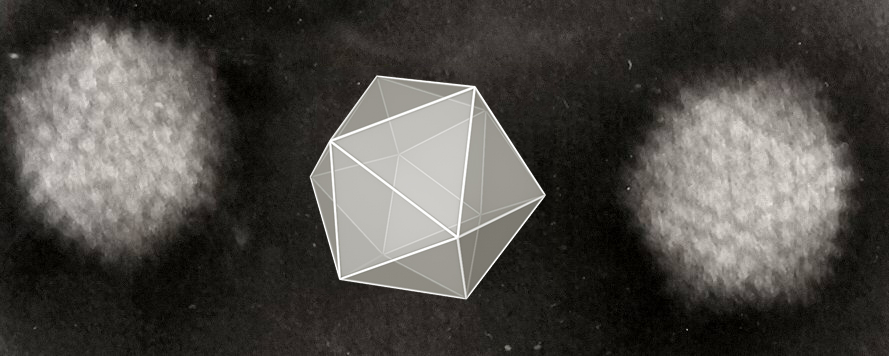 Two adenoviruses with a cartoon to show their icosahedral structure